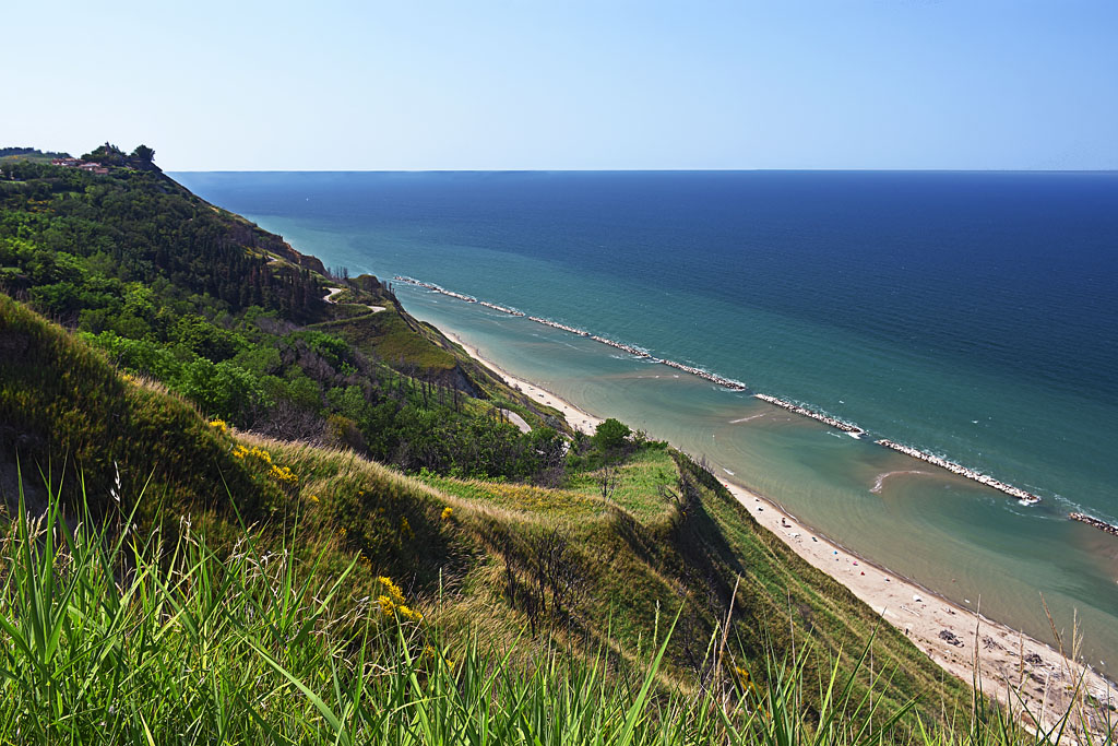 Monte San Bartolo natural parc, Fiorenzuola beach.